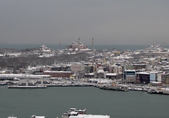 Golden Horn & Sultanahmed in Winter